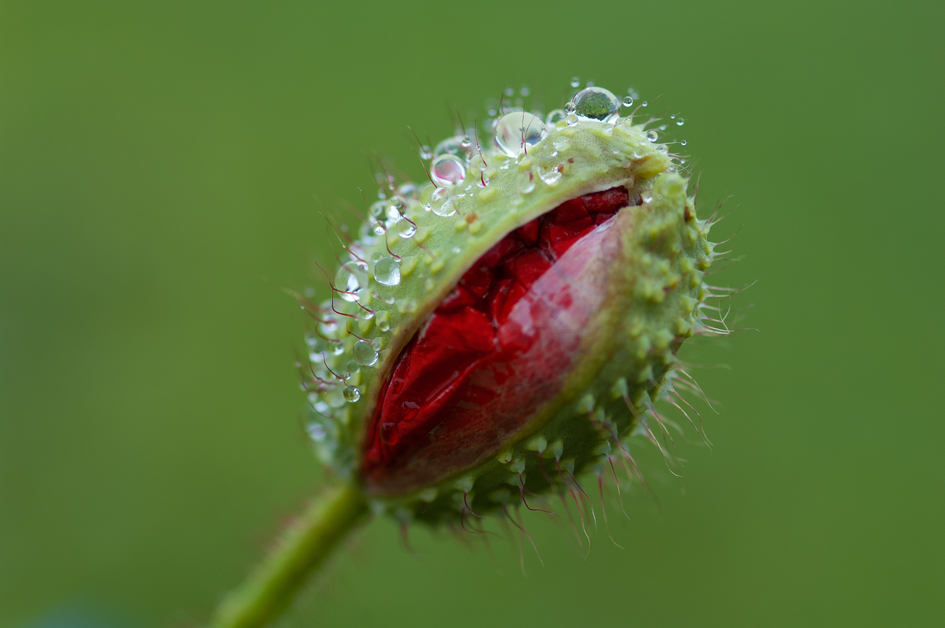 Papaver rhoeas bud with waterdrops